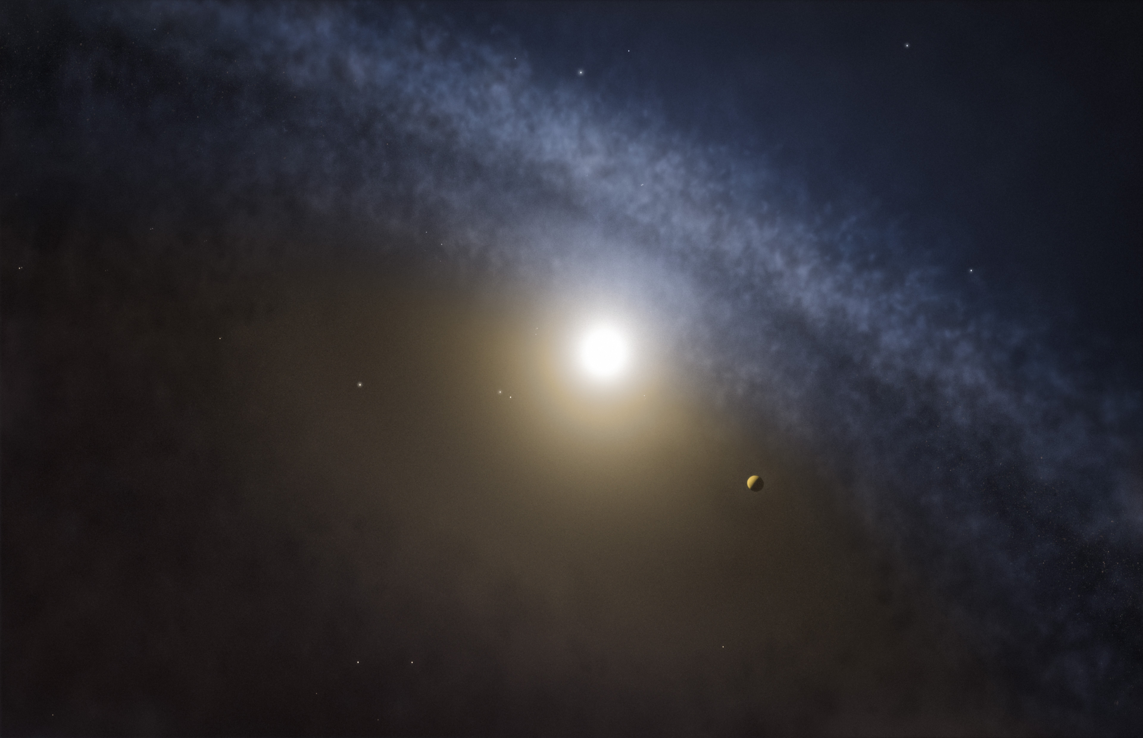 Astronomers using the Atacama Large Millimeter/submillimeter Array (ALMA) have found telltale differences between the gaps in the gas and the dust in discs around four young stars. These new observations are the clearest indications yet that planets with masses several times that of Jupiter have recently formed in these discs.